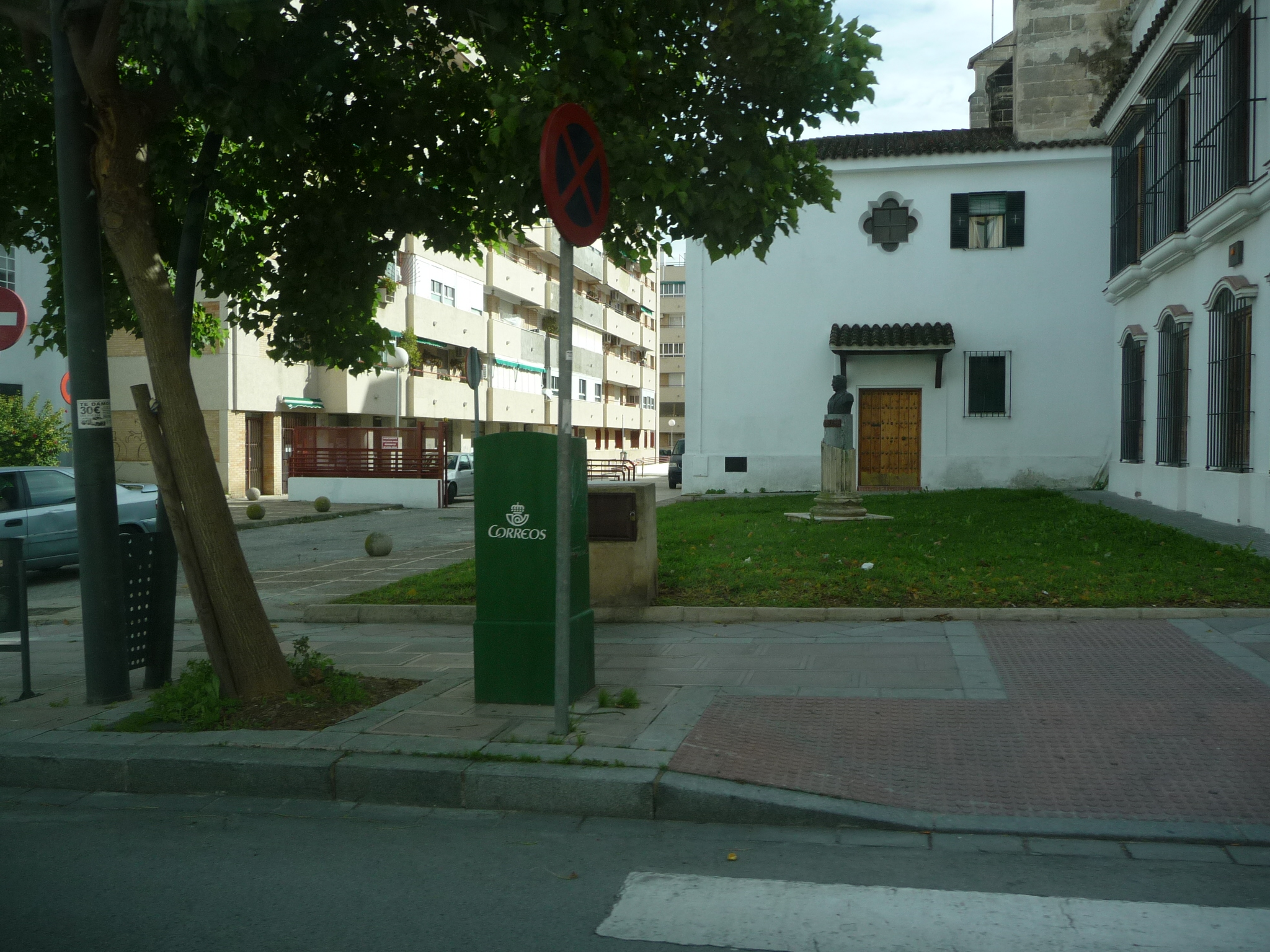 Madre de Dios Monastery and monument to Manuel Torre (Jerez de la Frontera)